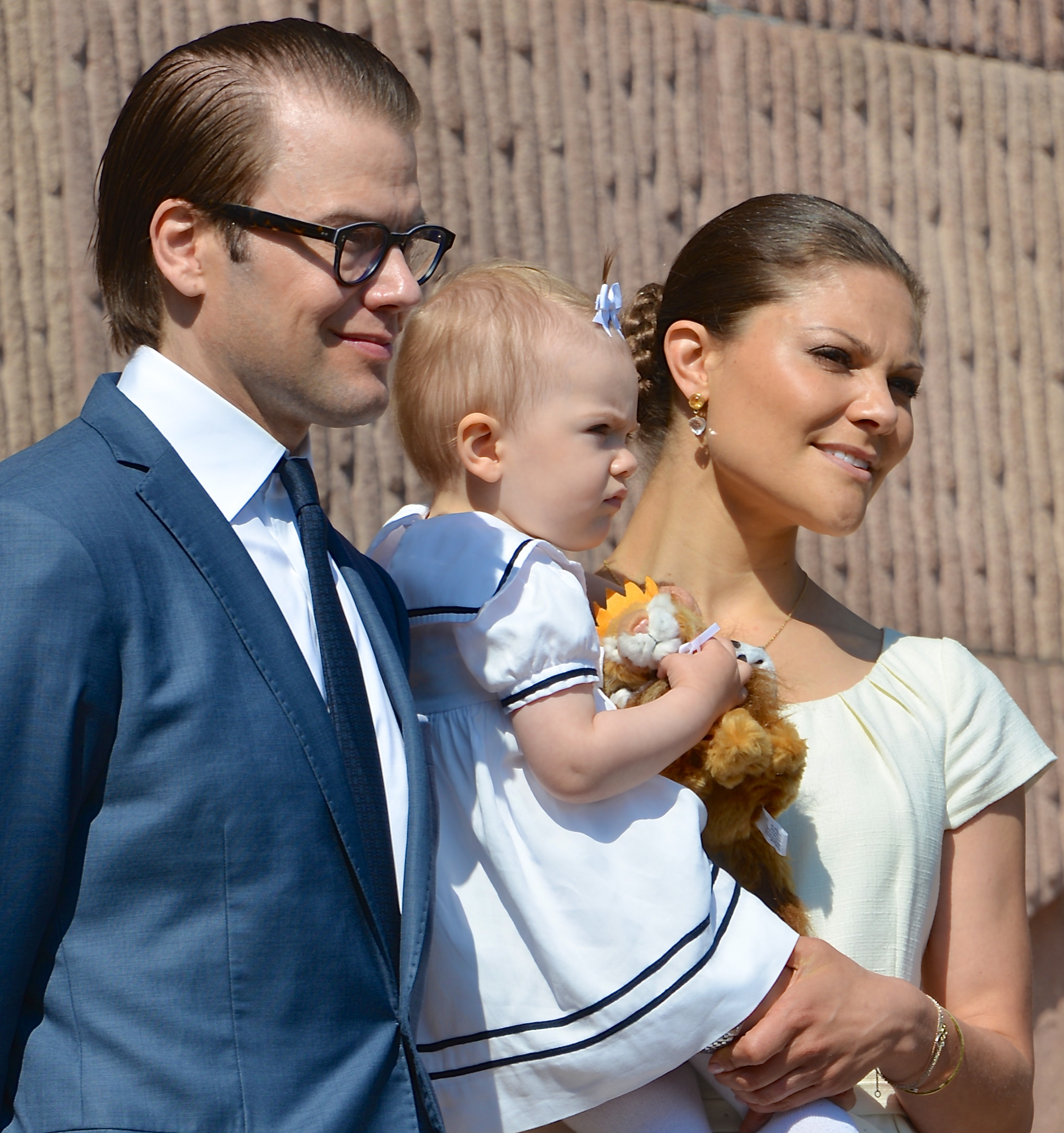 Crown Princess Victoria and Princess Estelle open the Palace´s gates from the Palace´s garden Logården, June 6, 2013.